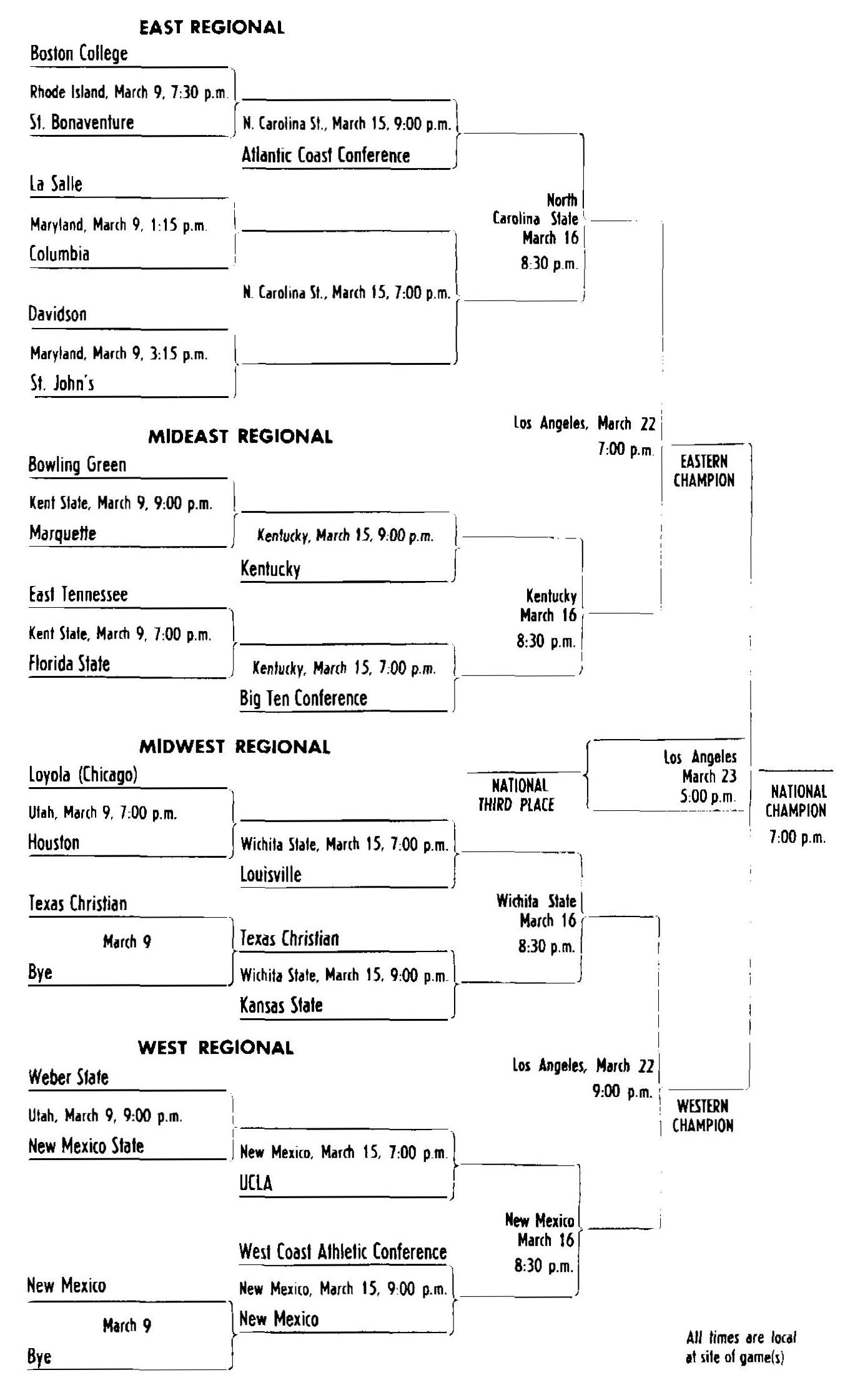 The March 1968 issue of the NCAA News, a newsletter for the National Collegiate Athletic Association